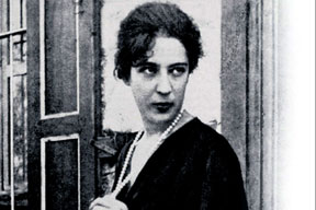 Fikriye Hanım.